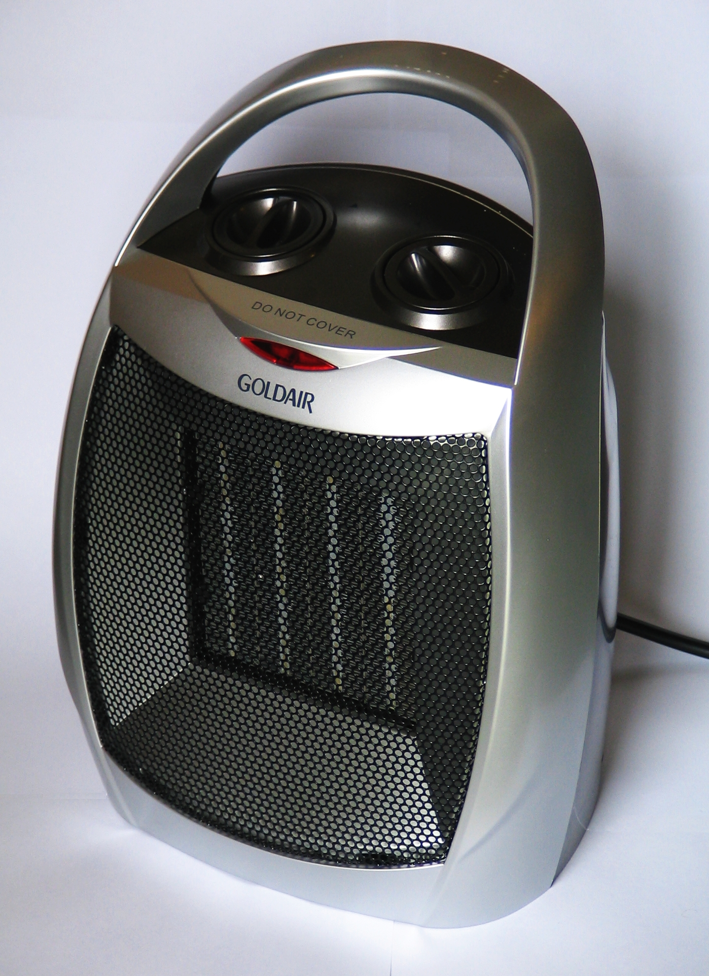 Goldair GCH200 ceramic heater, 1800W, 20cm tall (excluding handle)